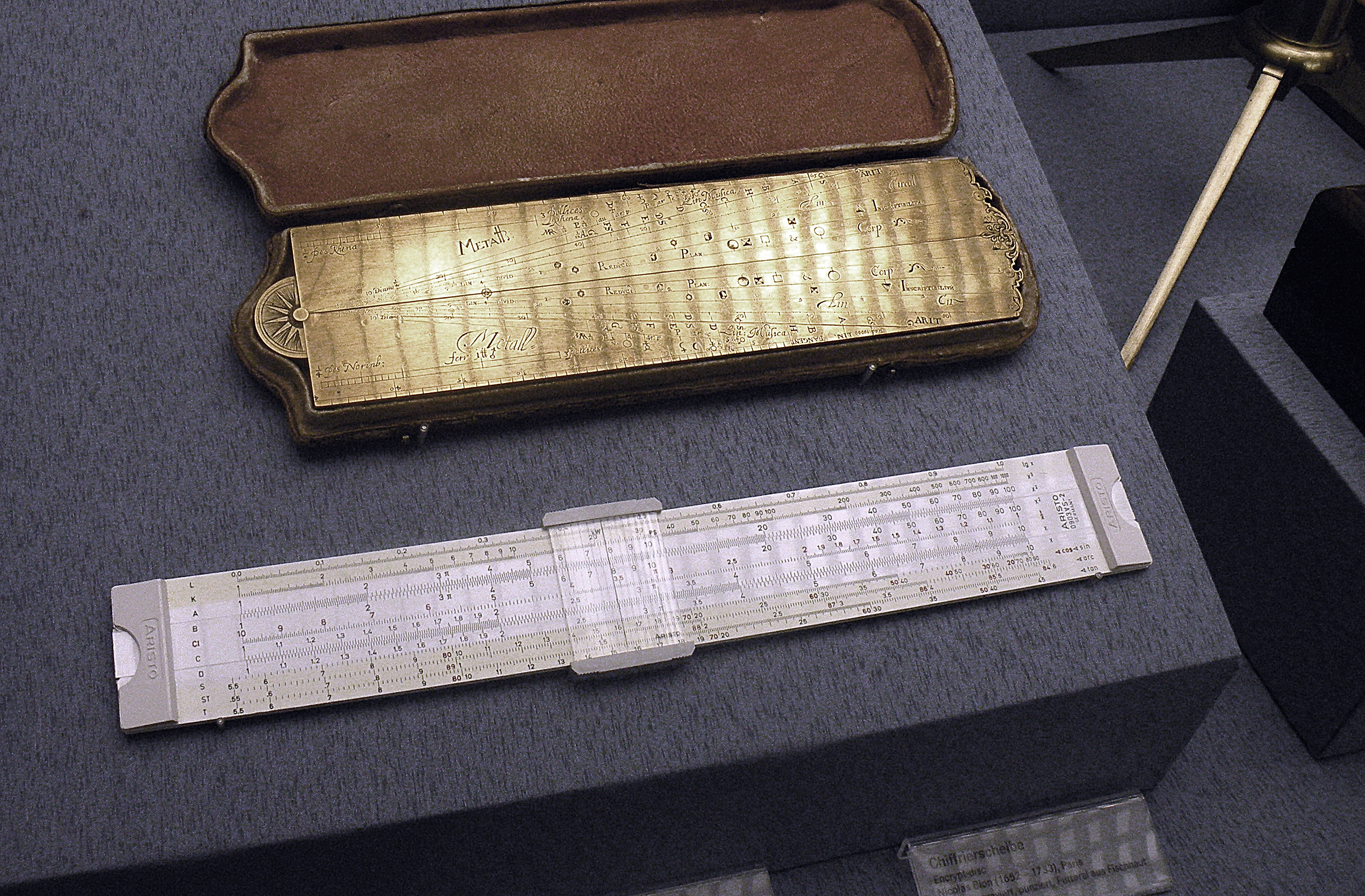 Slide rule and ancient sector. National German Museum. Nuremberg